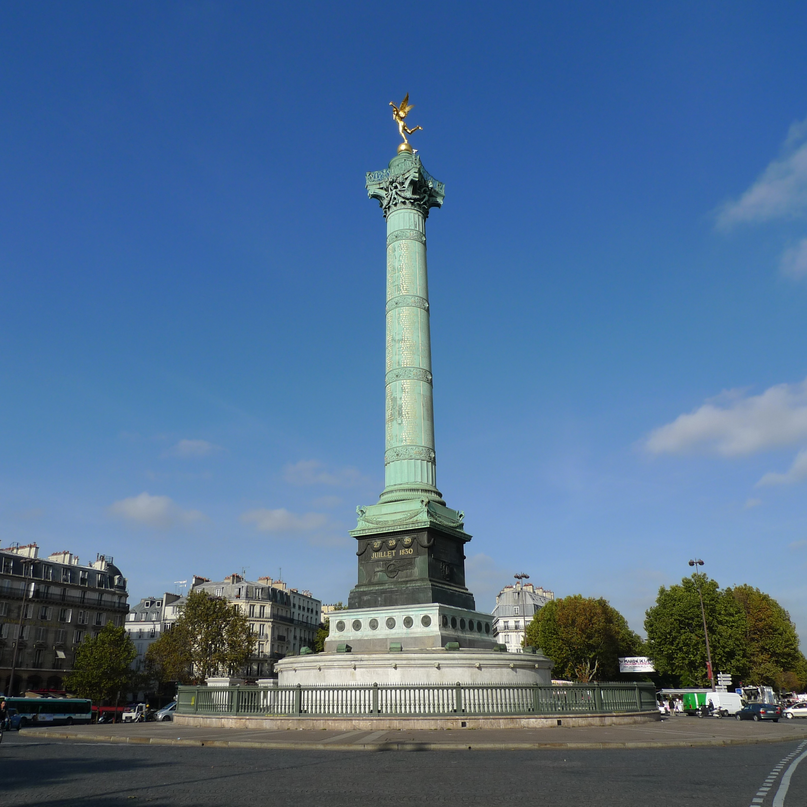 Colonne de Juillet The title of the photo is: colonne de Juillet, place de la Bastille (PARIS,FR75) This is a cropped version of the photo.